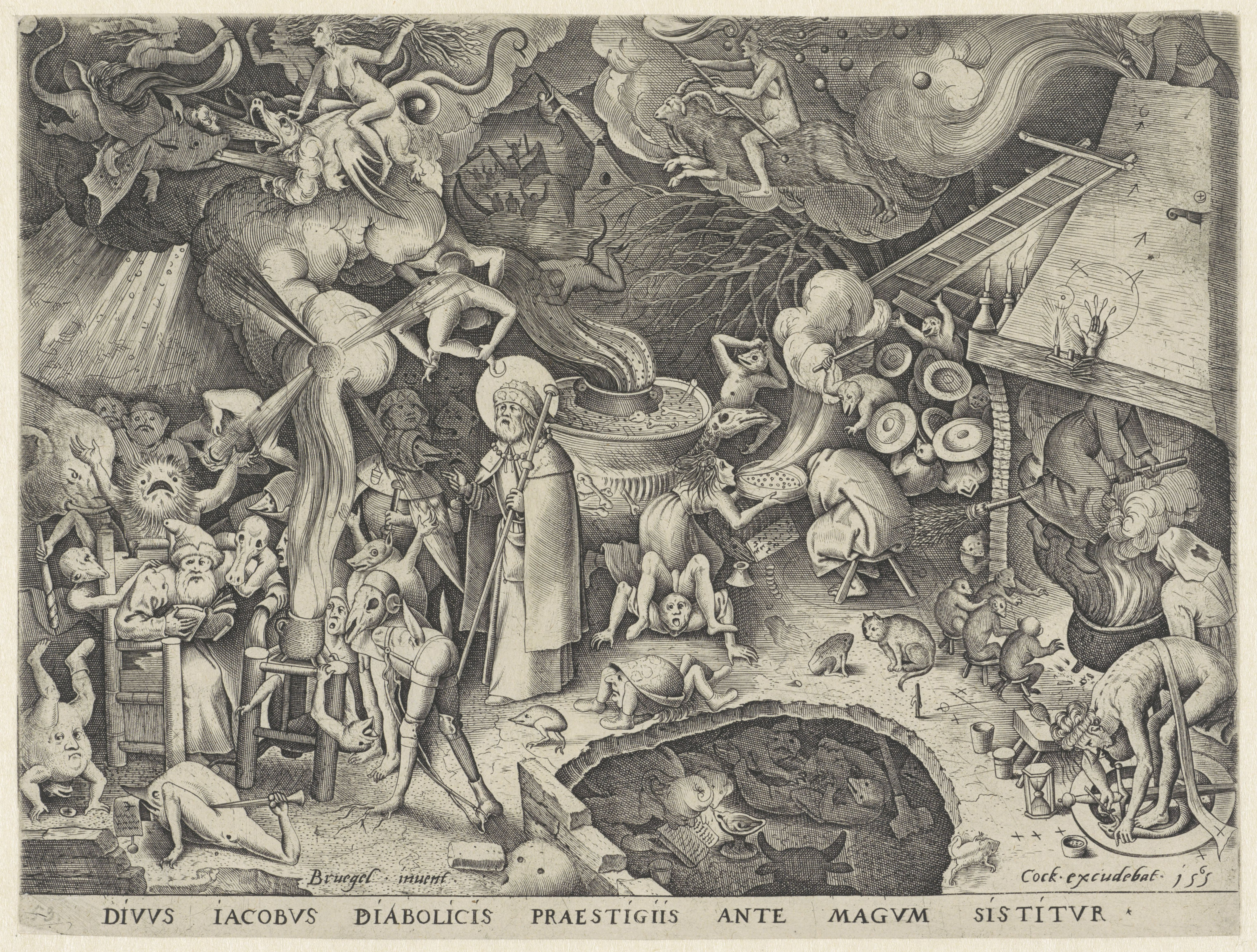 Jacob meets magician Hermogenes.